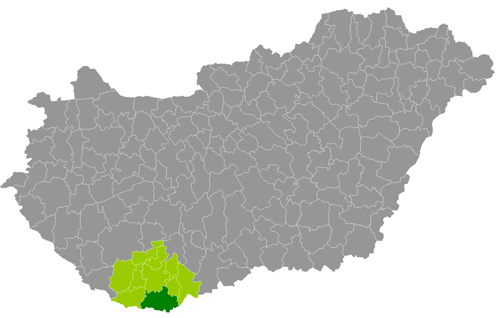 Location of Siklós District, Baranya, Hungary